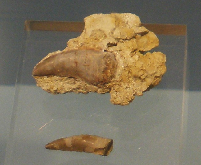 Fossil of Liliensternus, an extinct theropod